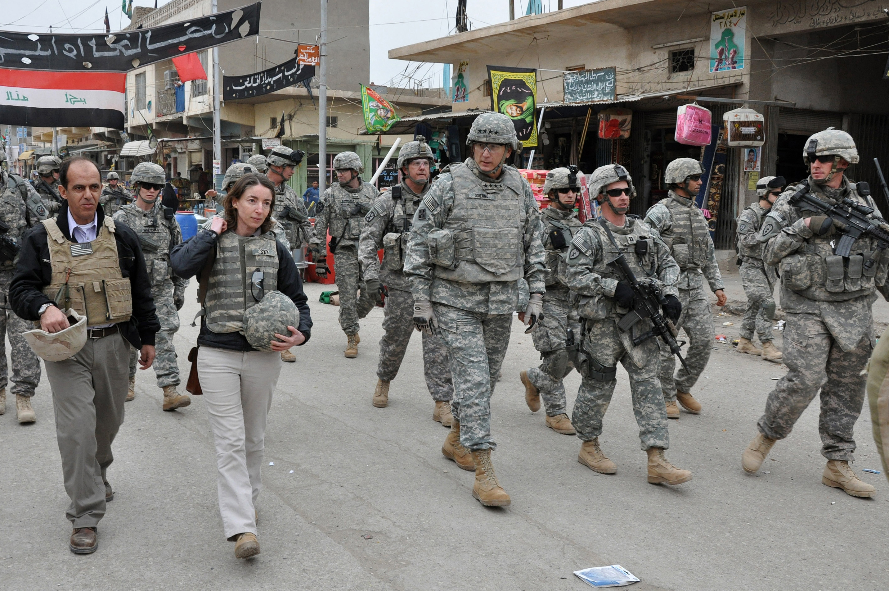 Gen. Ray Odierno, Multi-National Force - Iraq commanding general, walks through a local market in Khalis, Iraq, with Soldiers from 1st Stryker Brigade Combat Team, 25th Infantry Division, Jan. 24.